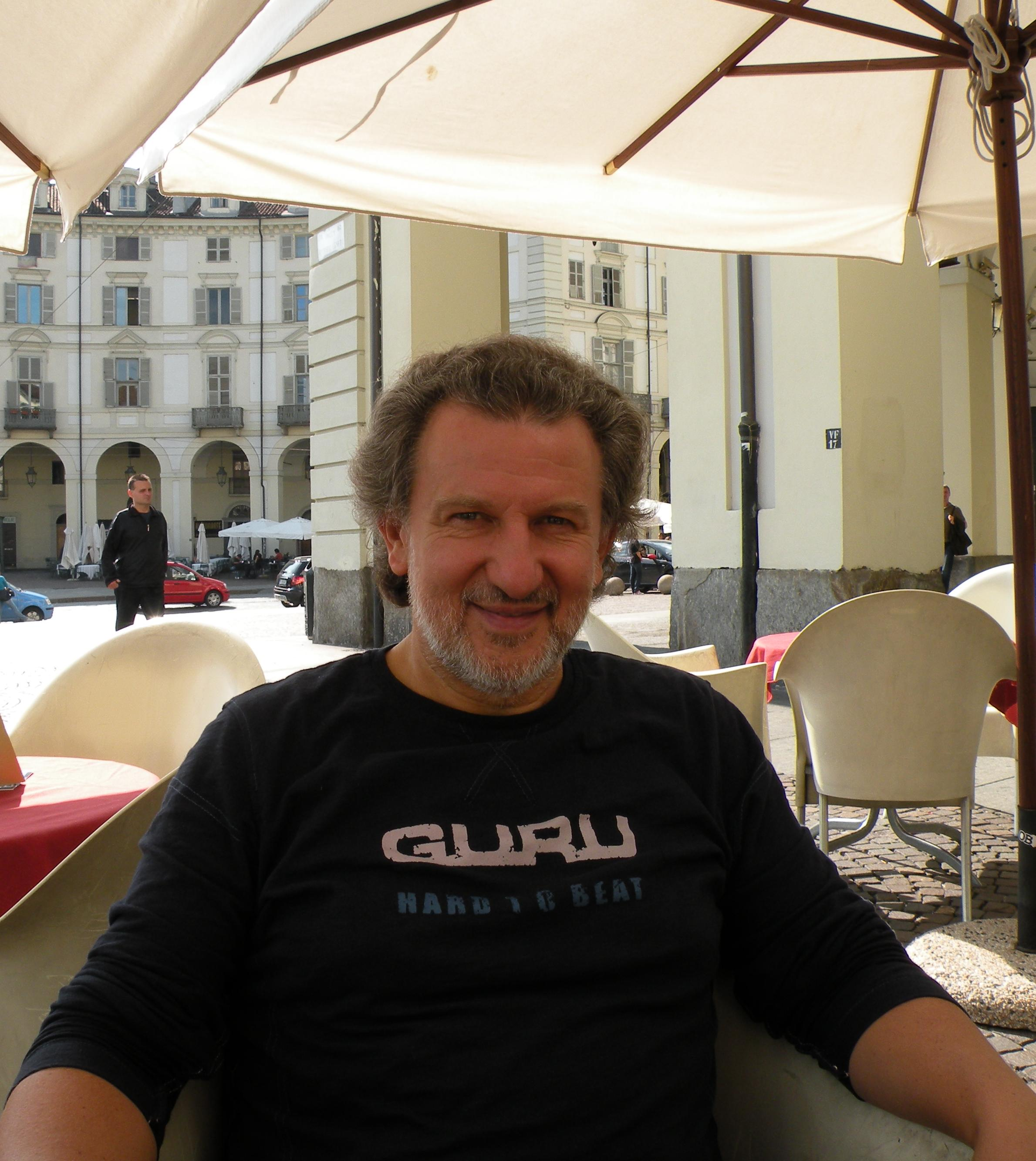 Piergiorgio Odifreddi (shot taken in Turin)